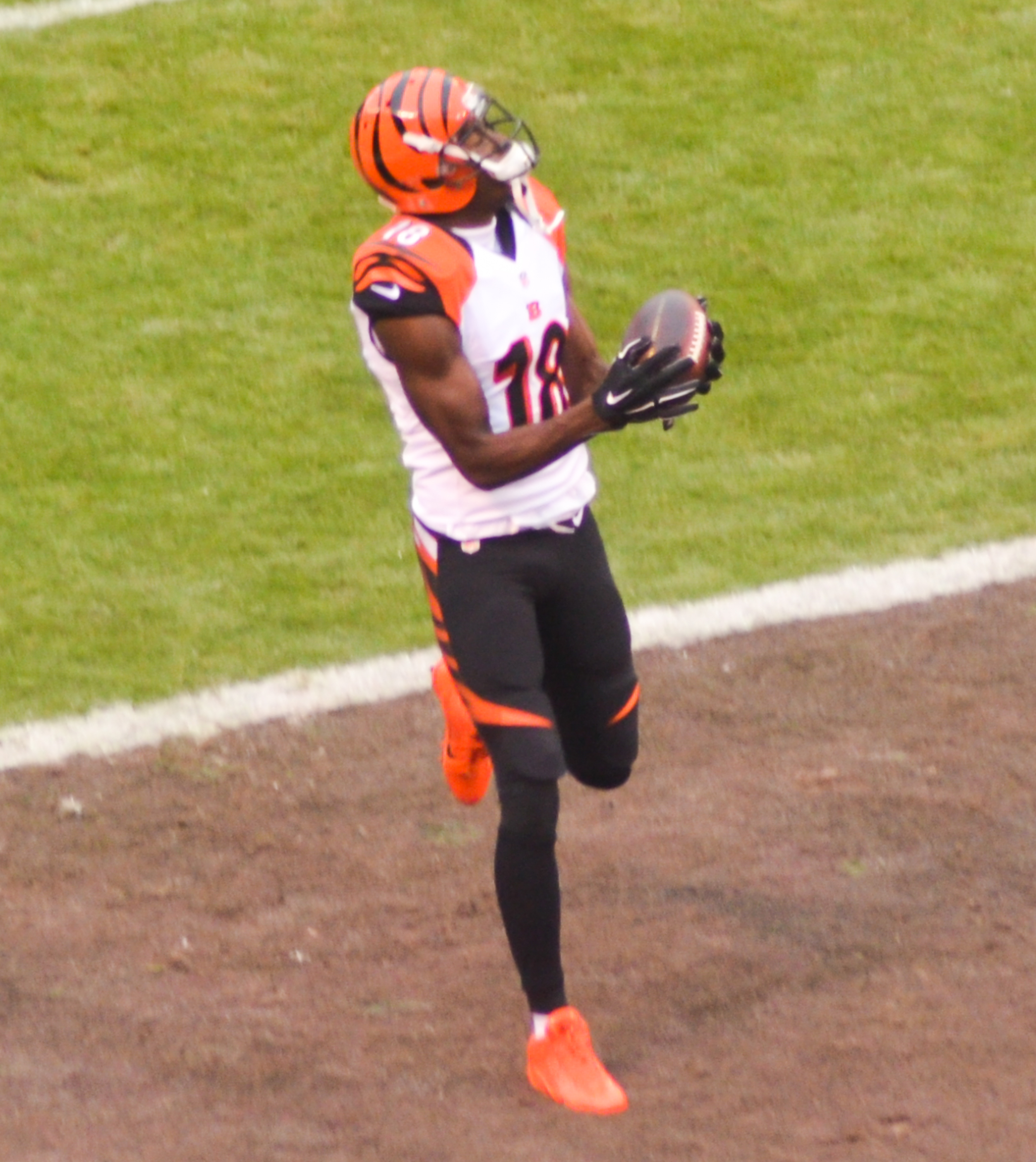 Cleveland Browns vs. Cincinnati Bengals 2014